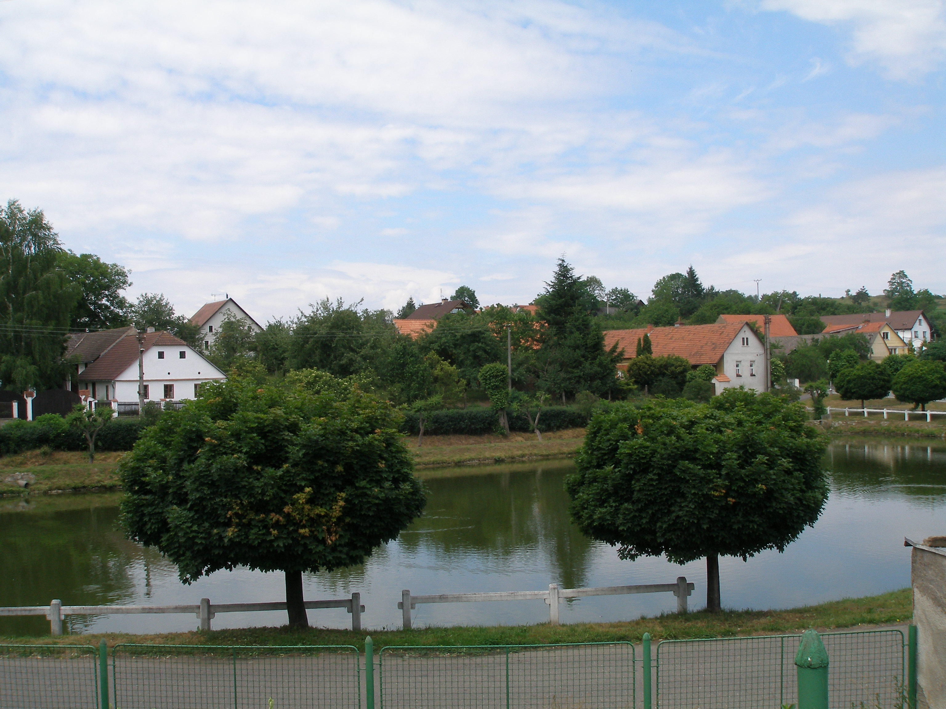 Village square in Milešov (Příbam District) Česky: Náves v Milešově (okres Příbram)